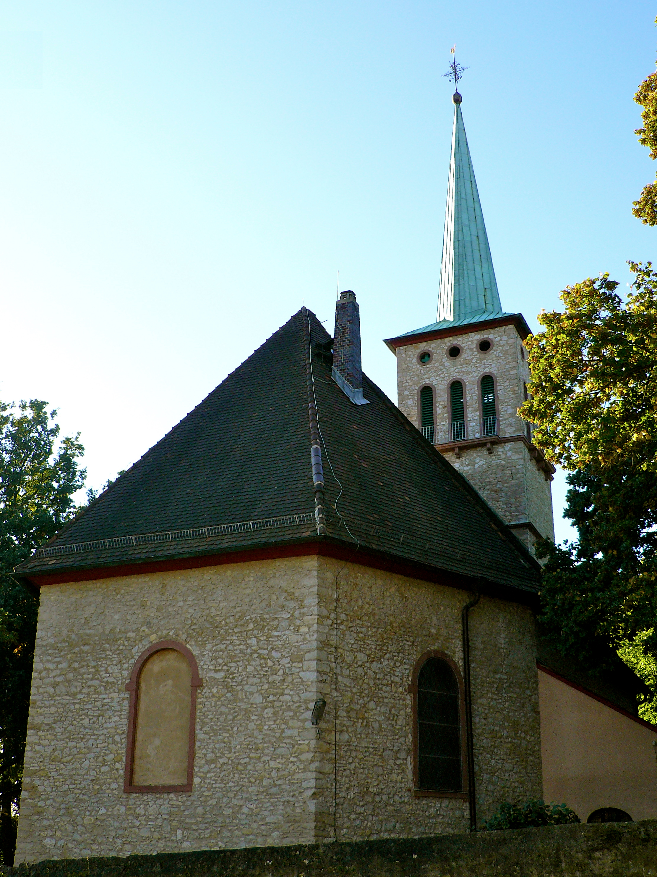 St. Mary's Church in Seckbach (1710), Frankfurt, Hesse, Germany